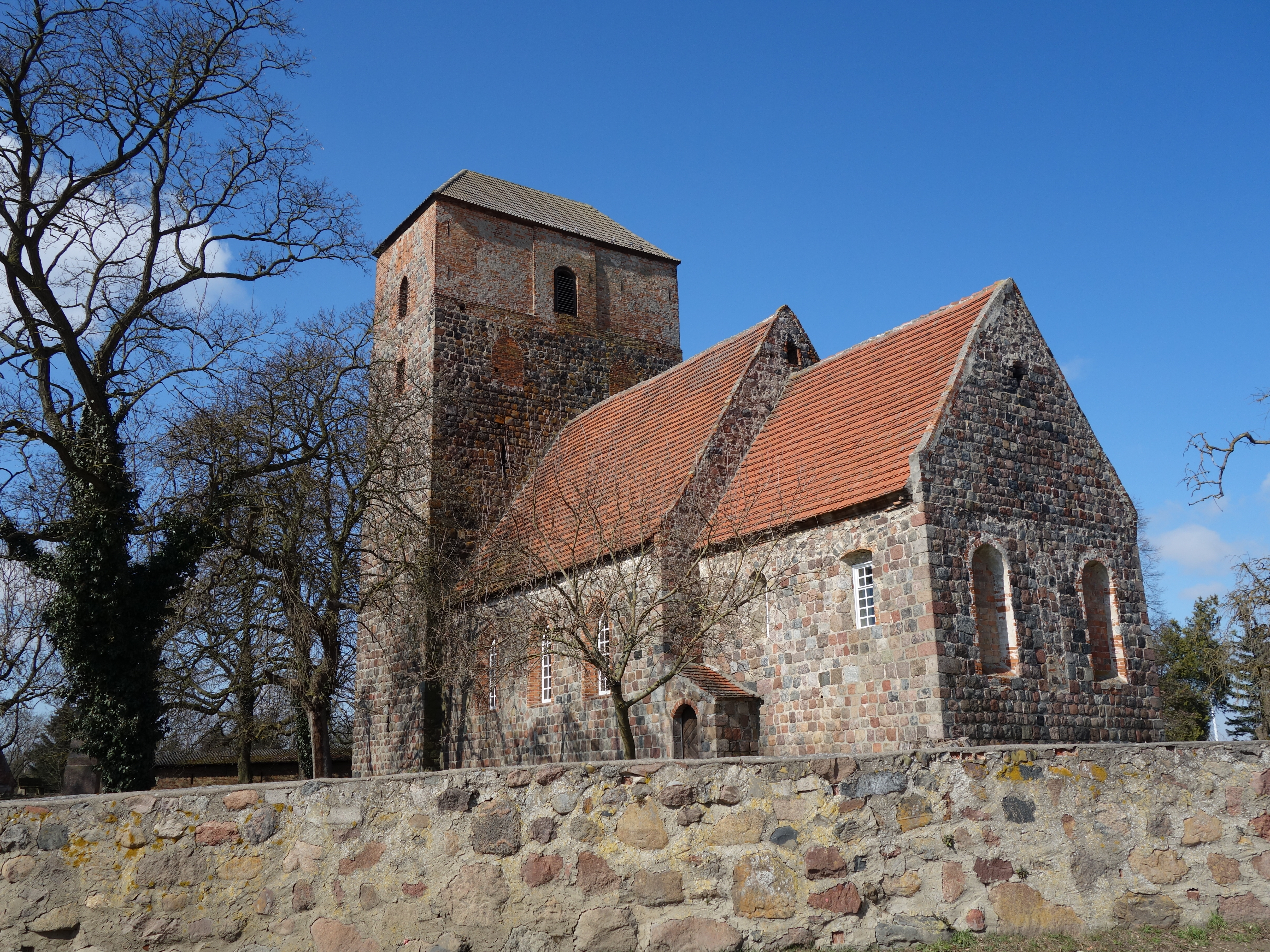 South-eastern view of the church in Lützlow , Gramzow municipality , Uckermark district, Brandenburg state, Germany